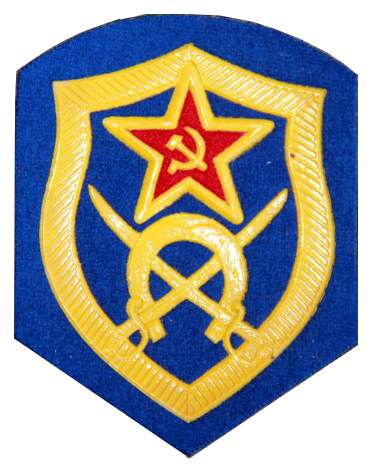 Emblem of the Cavalry Regiment num 11 in Alabino 1960 to 1991, Soviet Army (military branches, service branches or armed services), sleeve badge (appliquéd) right hand upper arm (dress uniform/ parade uniform) to be used for the ranks OR1 to 8, and WO1 to 2